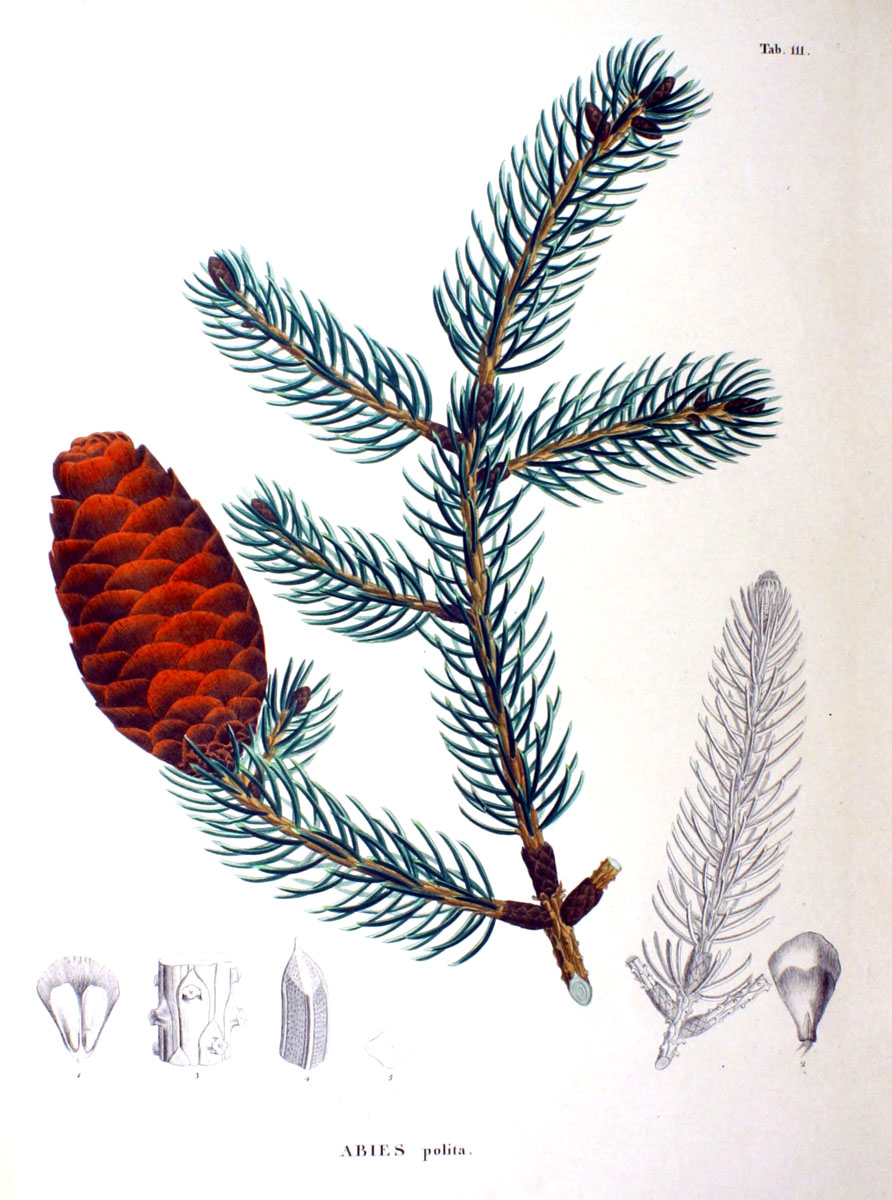 Plate from book. Picea torano (syn. P. polita, Abies polita)